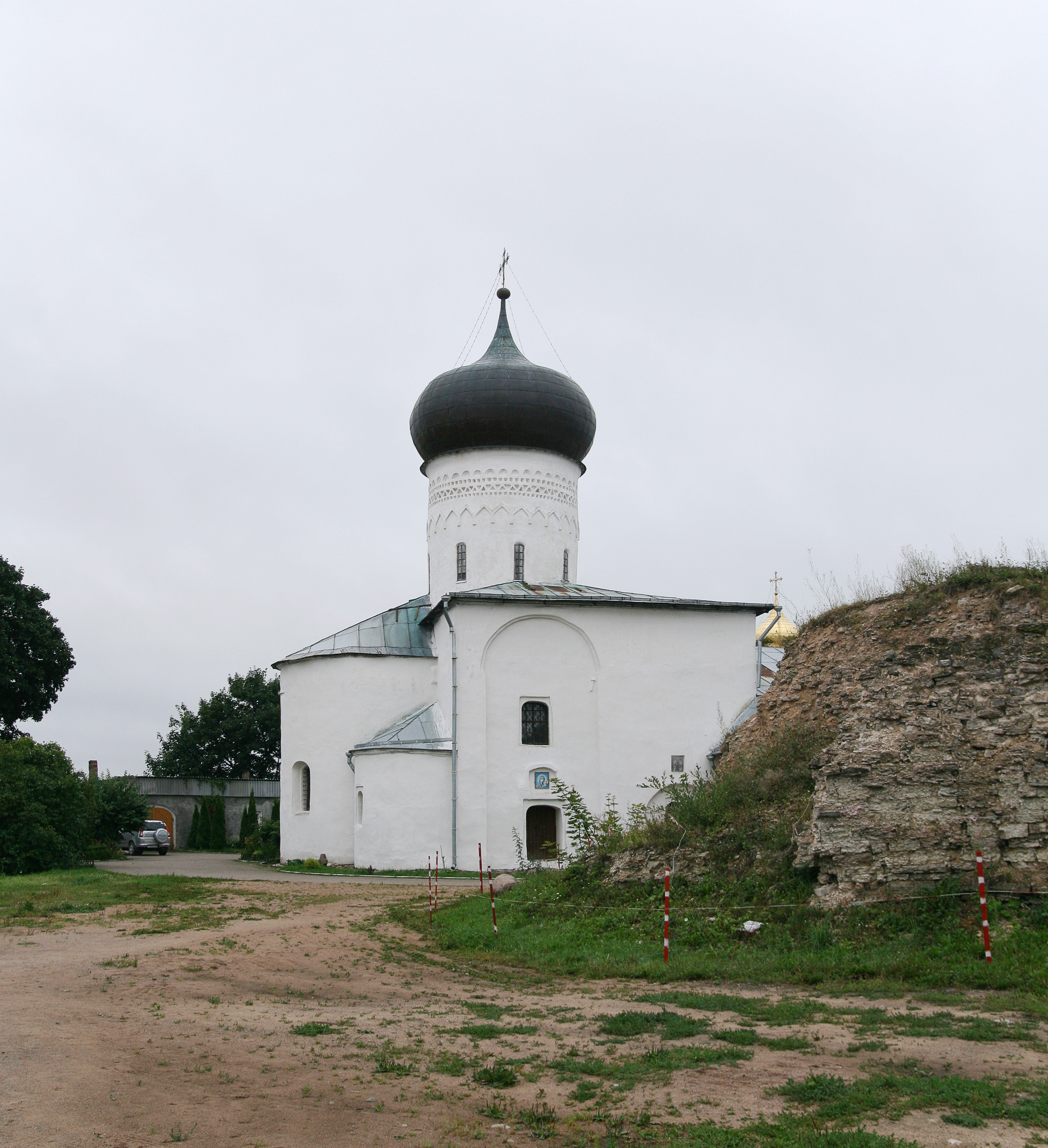 Nativity Cathedral of Snetogorsky Monastery, XIV c., Pskov